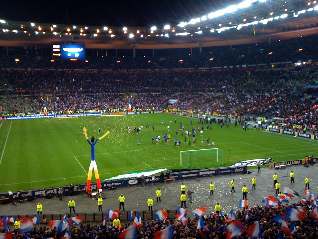 Celebrations after the end of the France vs Republic of Ireland football match in Stade de France, Saint Denis, France on 18 November 2009.